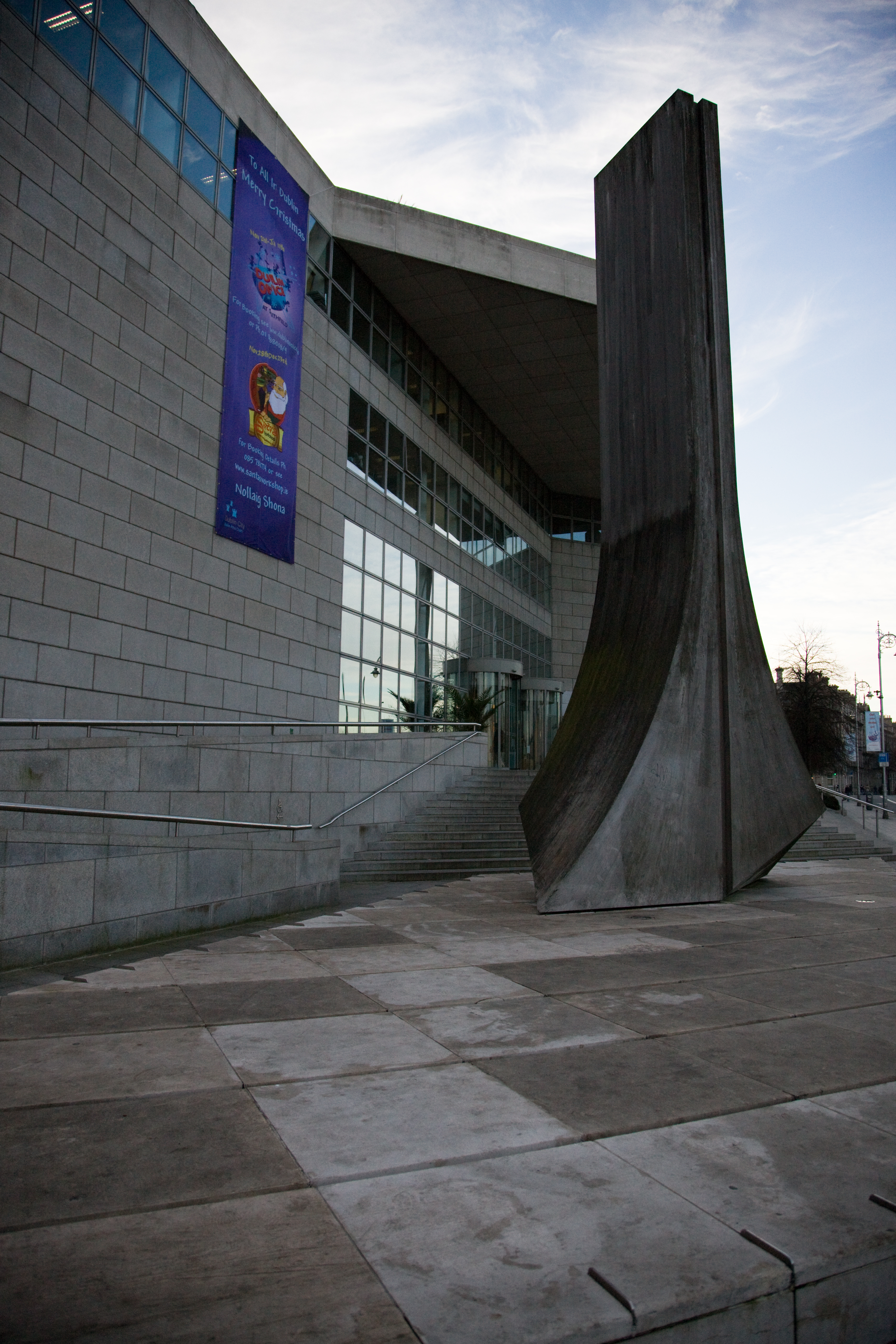 Sculpture Wood Quay (2002) by Michael Warren in Dublin/Ireland